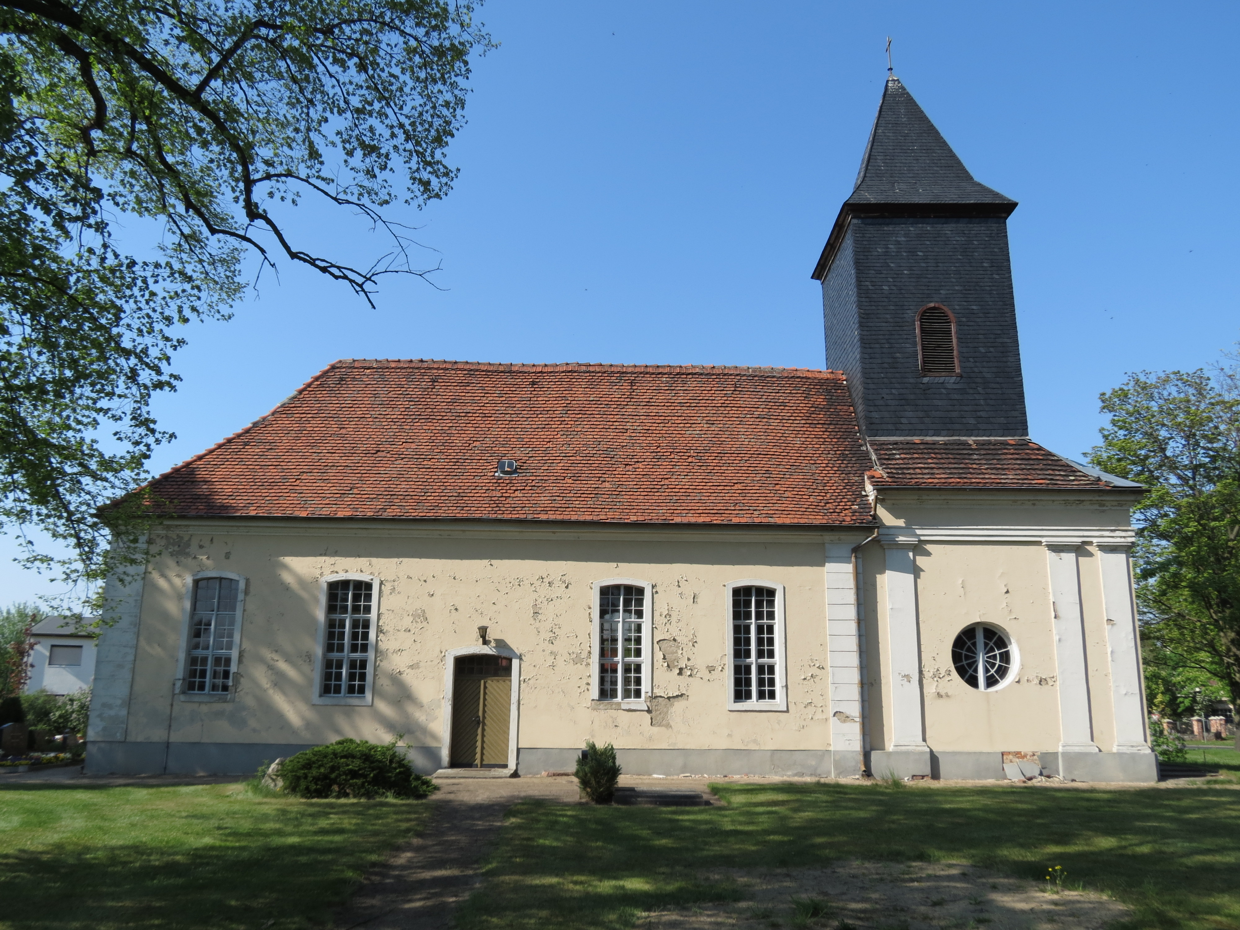 Märkisch Wilmersdorf, Trebbin, Brandenburg, Germany, village church, south side